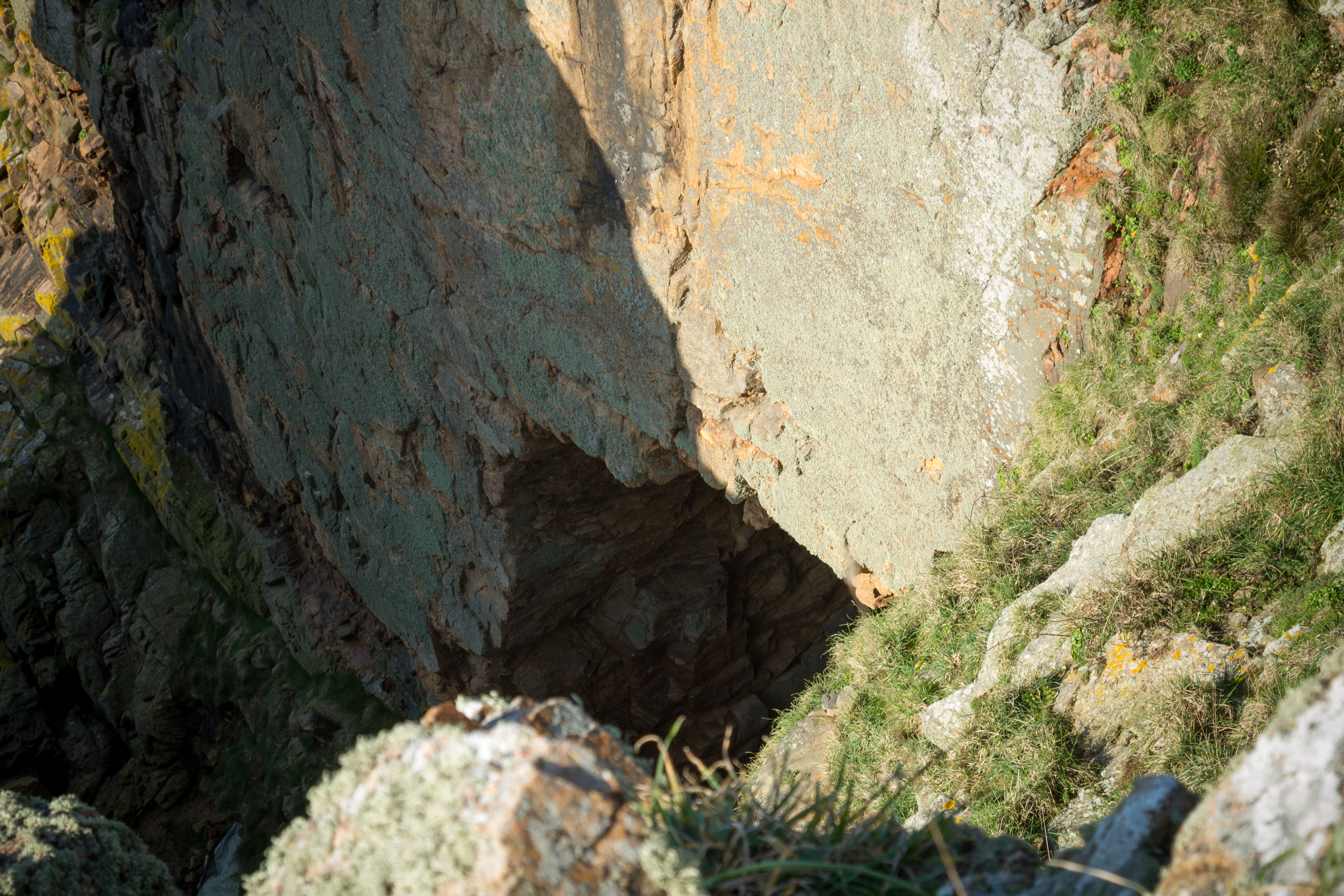 The cave at La Cotte de St Brelade seen from the cliff above.